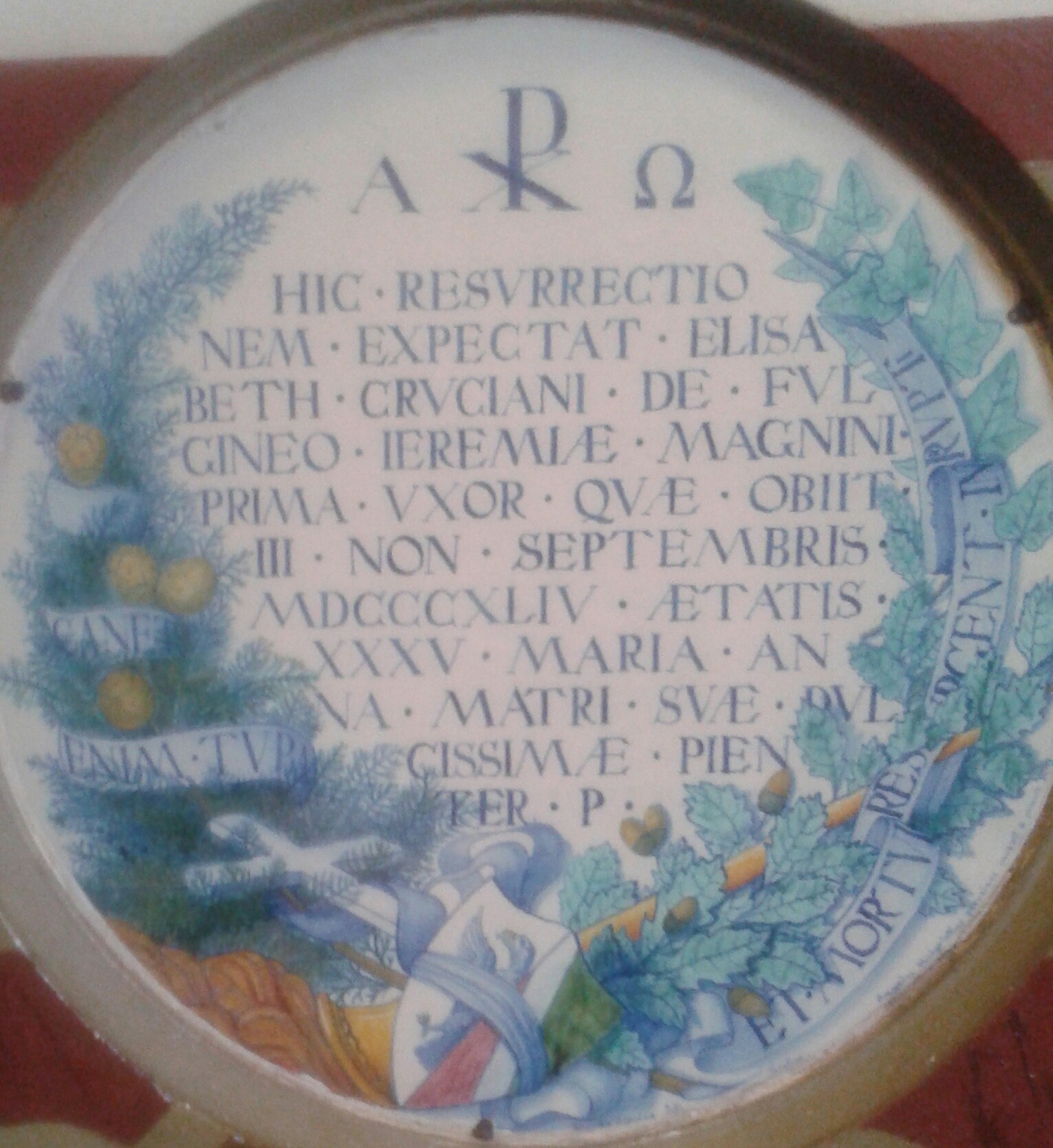 Angelo Micheletti, targa funeraria di Elisabetta Cruciani di Foligno seconda moglie di Geremia Magnini morta nel 1844 all'età di 35 anni